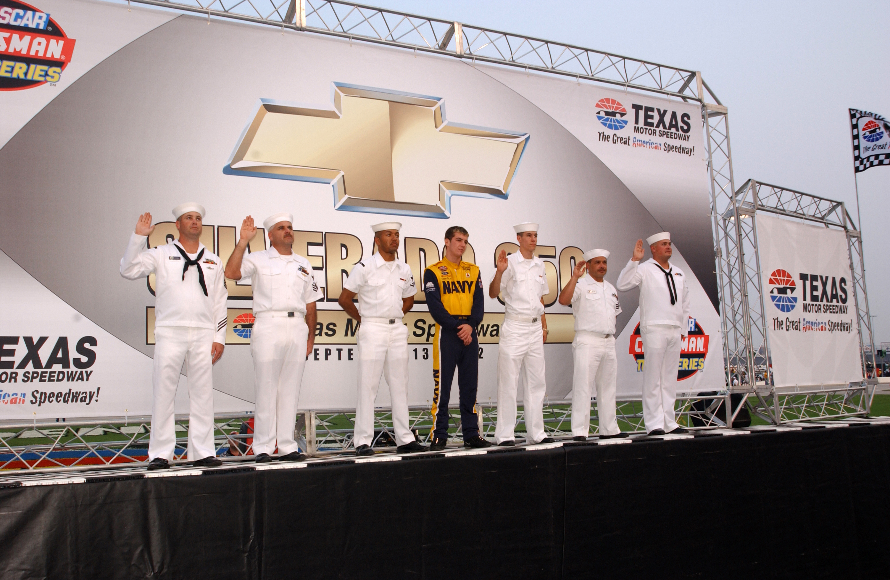 Ft. Worth, Tx. (Sep. 13, 2002) -- Jon Wood, driver of the Navy sponsored No. 50 NASCAR Craftsman Series race truck, joins Sailors during a special pre-race reenlistment ceremony at Texas Motor Speedway. Sailors (left to right) are ET1 Gary D. Hayes, IT1 Walton I. Morris, AD3 Eric Caloway, AA Jimmy G. Williams, ET1 John W. Cueller and AD3 Anthony J. Leonard. Wood has appeared in reenlistment ceremonies for nearly 100 Sailors during the 2002 racing season as part of the center for Career Development’s effort to encourage Sailors to “Stay Navy.” U.S. Navy photo by Photographer’s Mate 2nd Class Steven Crawford. (RELEASED)